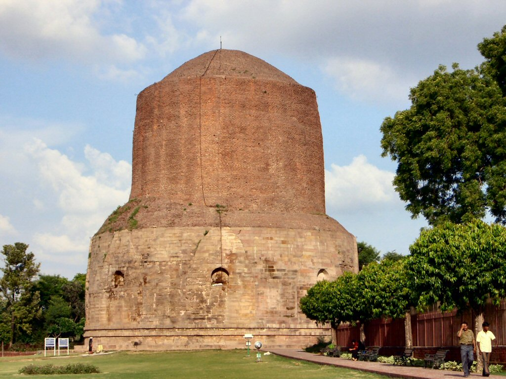 Dhamekh Stupa, Sarnath, originally built by Mauryan King, Ashoka in 249 BC. (Sarnath is one of the holiest places in the Buddhist world - it was the location of the Buddha's first teaching)